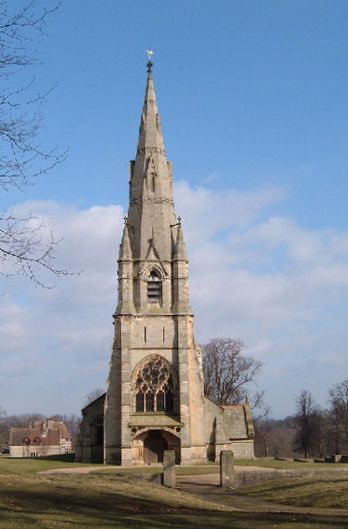 St Mary's parish church, Studley Royal, North Yorkshire, seen from the southwest